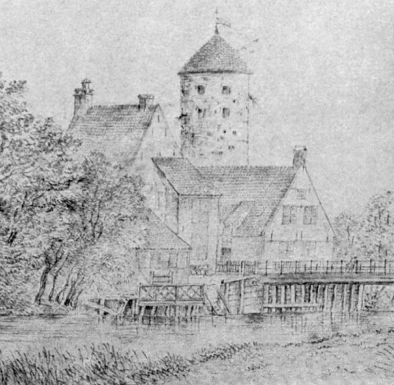 Warturm on Ochtum river and neighbouring buildings in Bremen in late 18th or early 19th century, cut of a lead pencil drawing; original in the repository of Focke Museum, Bremen